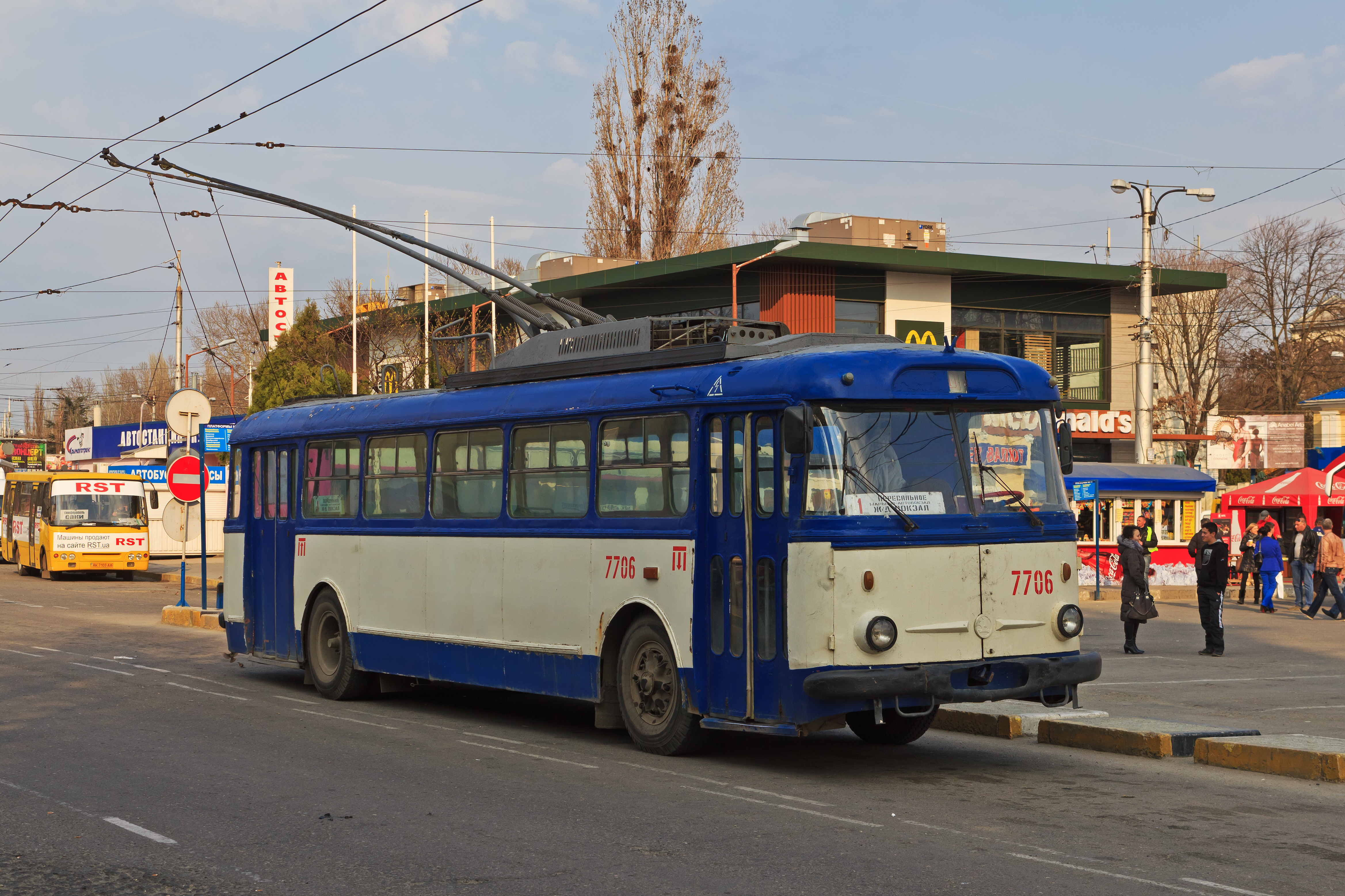 Old trolleybus (Škoda 9Tr) in Simferopol, Crimean Peninsula.